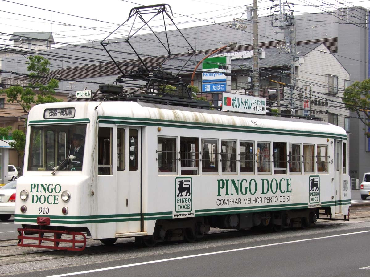 Tosa electric railway type 910 at Sanbashi-dōri-yonchōme Station. This was tramcar in Lisbon.